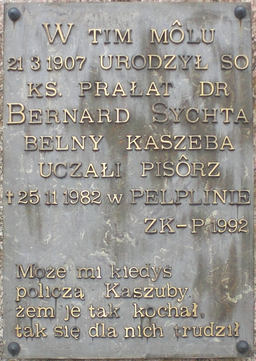 Puzdrowo, plaque